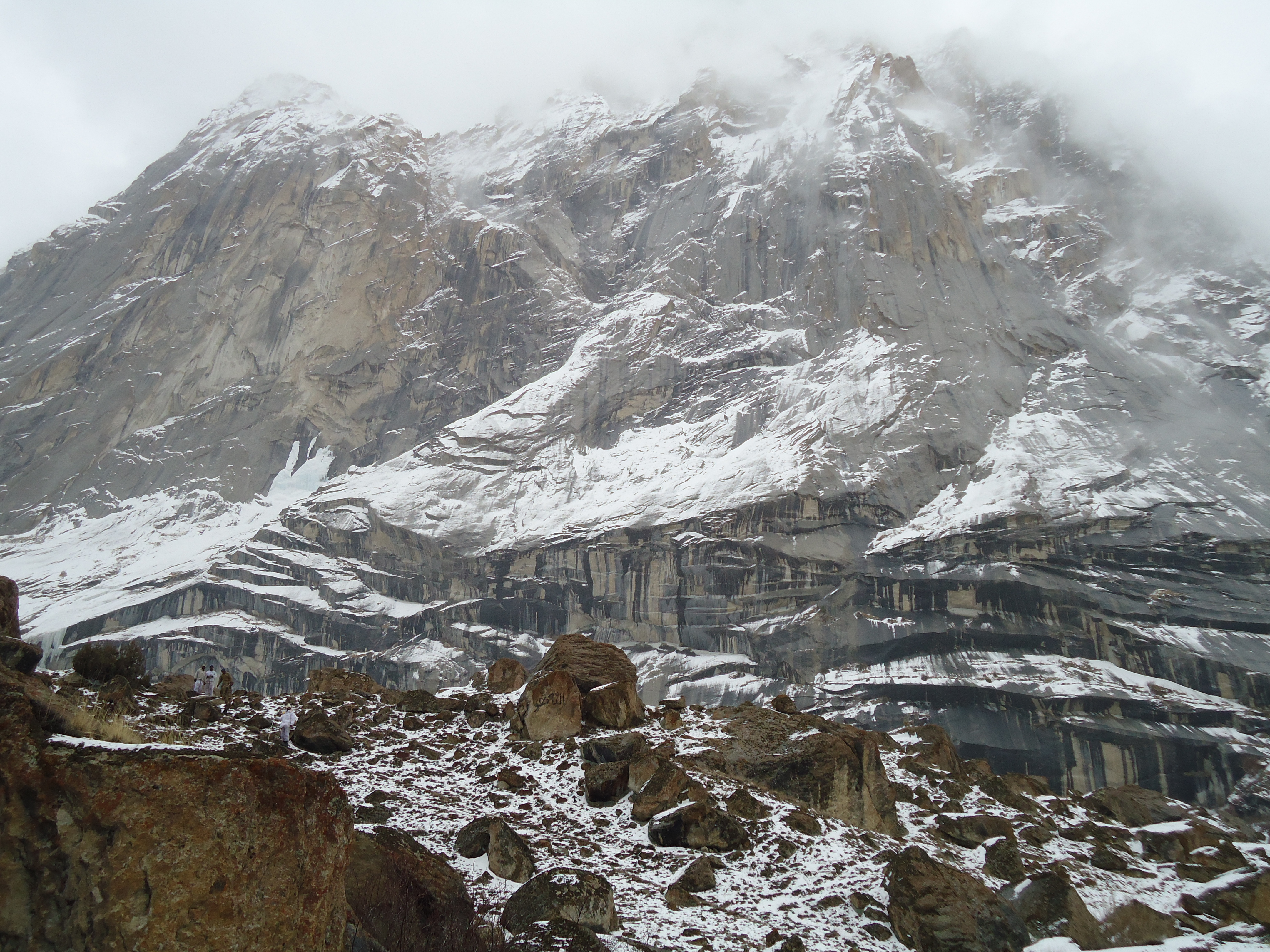 Near Siachen